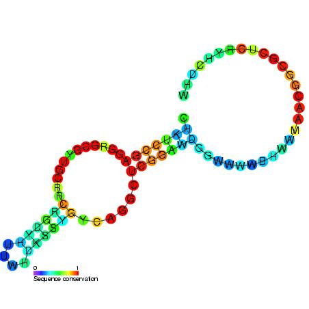 Secondary structure image for the SAH riboswitch ncRNA (RF01057).Nucleotide colouring indicates sequence conservation between the members of this family.